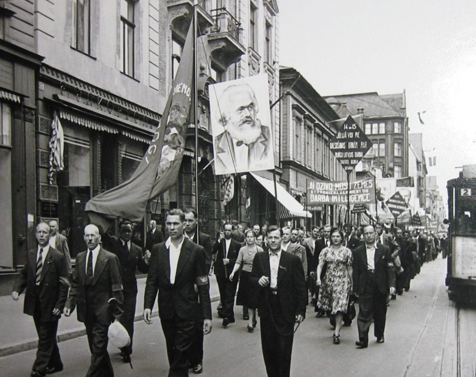 Demonstration in Riga. 1940 in Latvia.